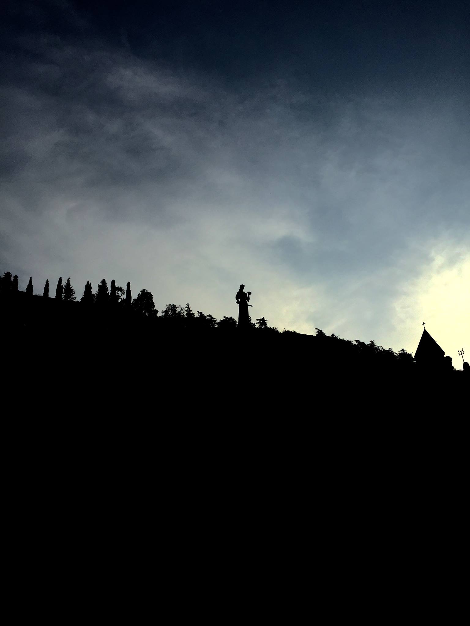 Famed symbol of Tbilisi, Georgia - the Kartlis Deda in silhouette.